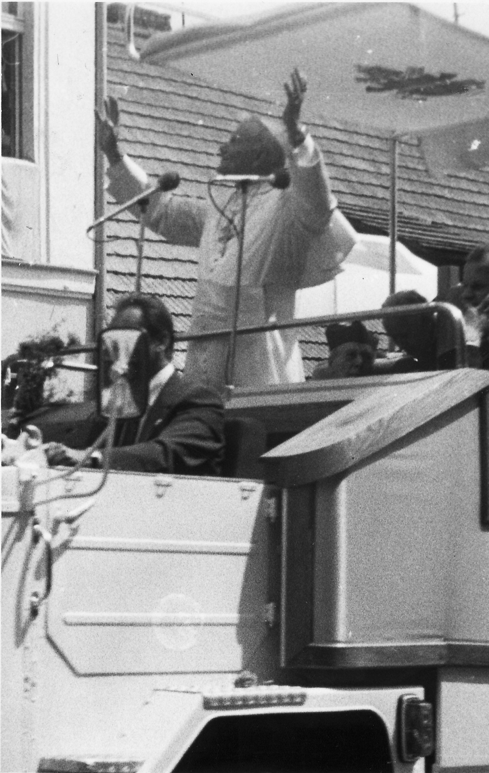 Ioannes Paulus II during his pilgrim to Poland in 1979. Photo taken in Gniezno, B. Chrobrego street.